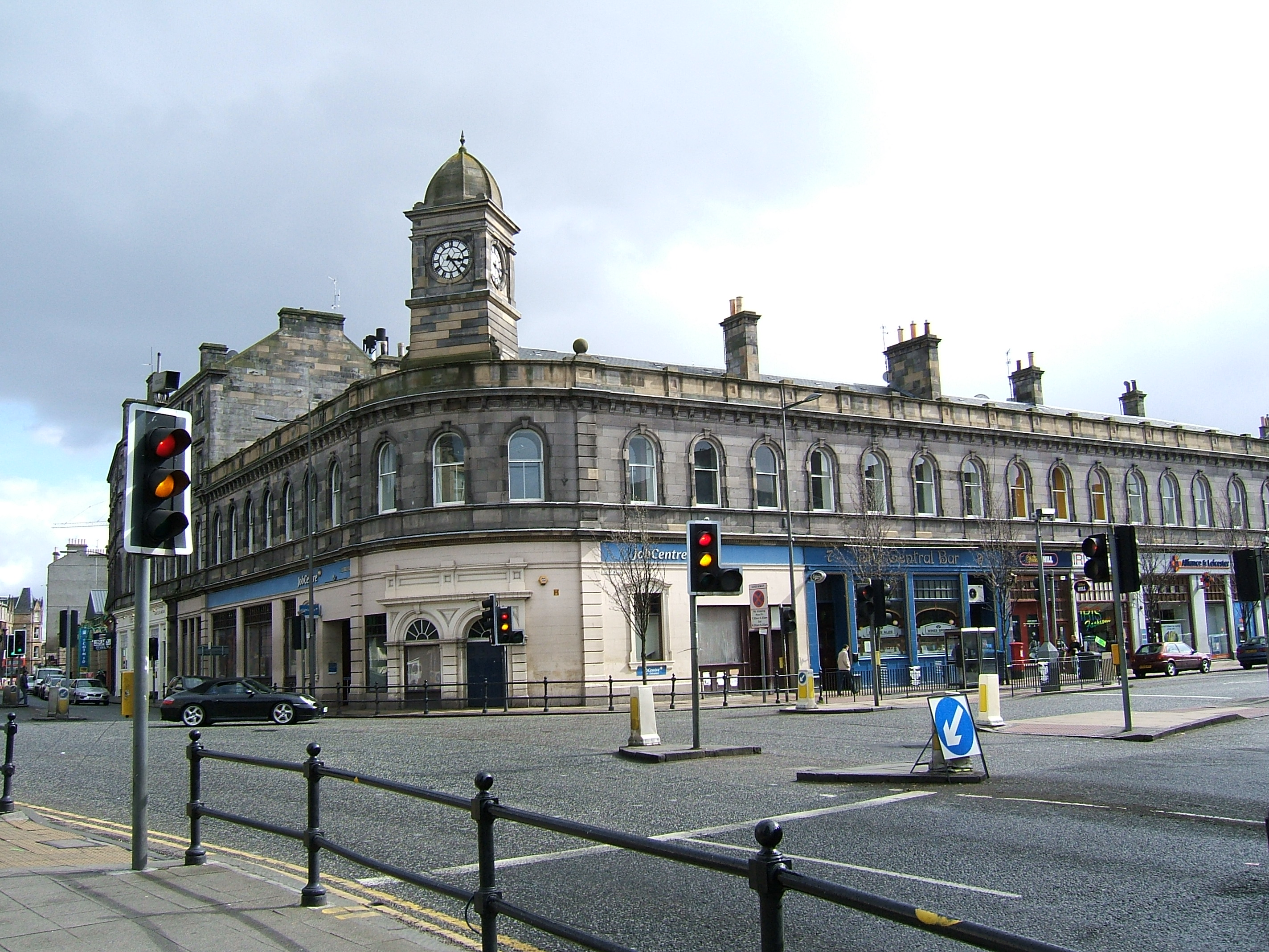 Photo by LHOON from Available under the CC Attribution Share-alike licence